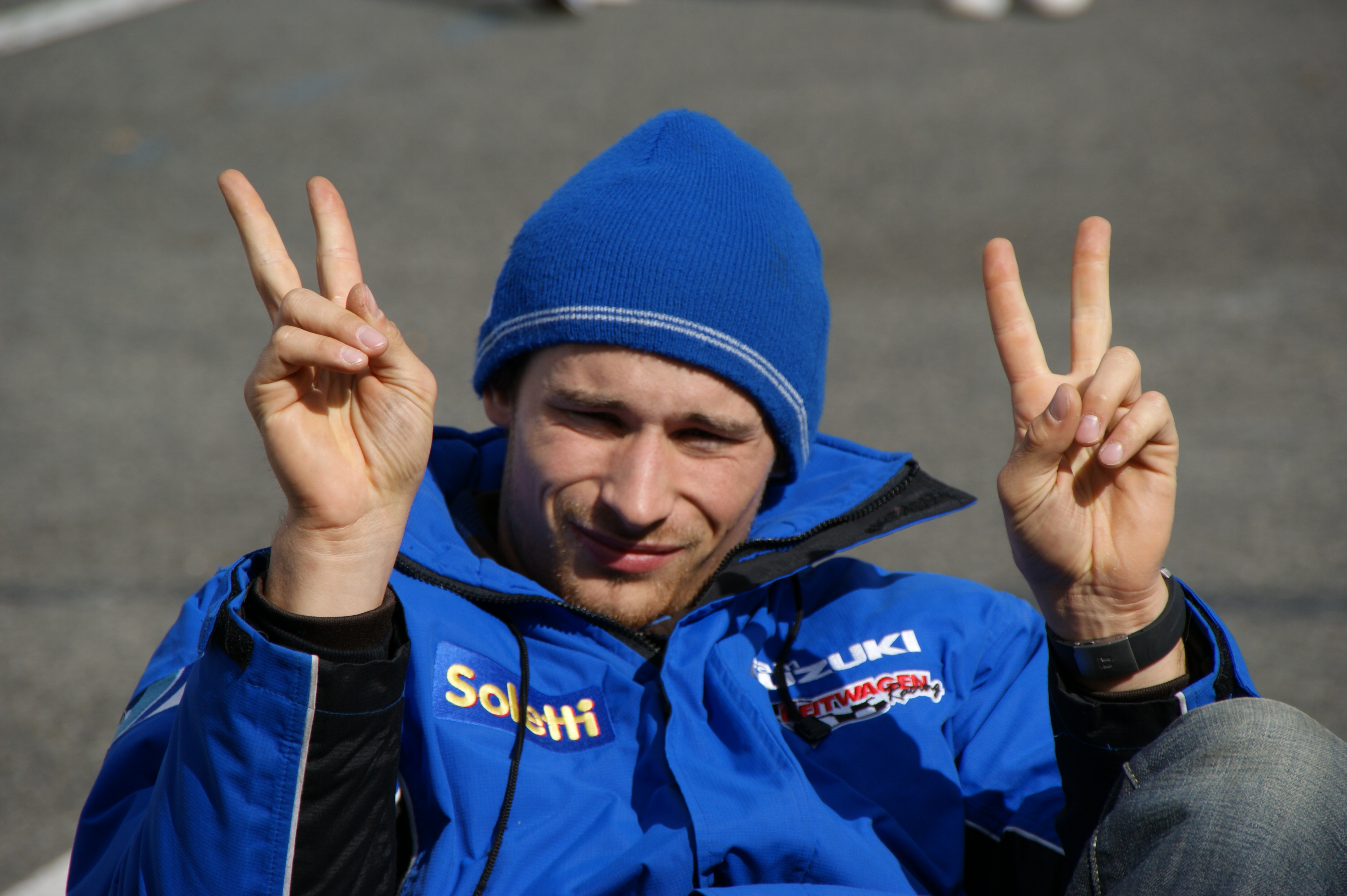 Roland Resch Austrian Motorcycle Race Driver